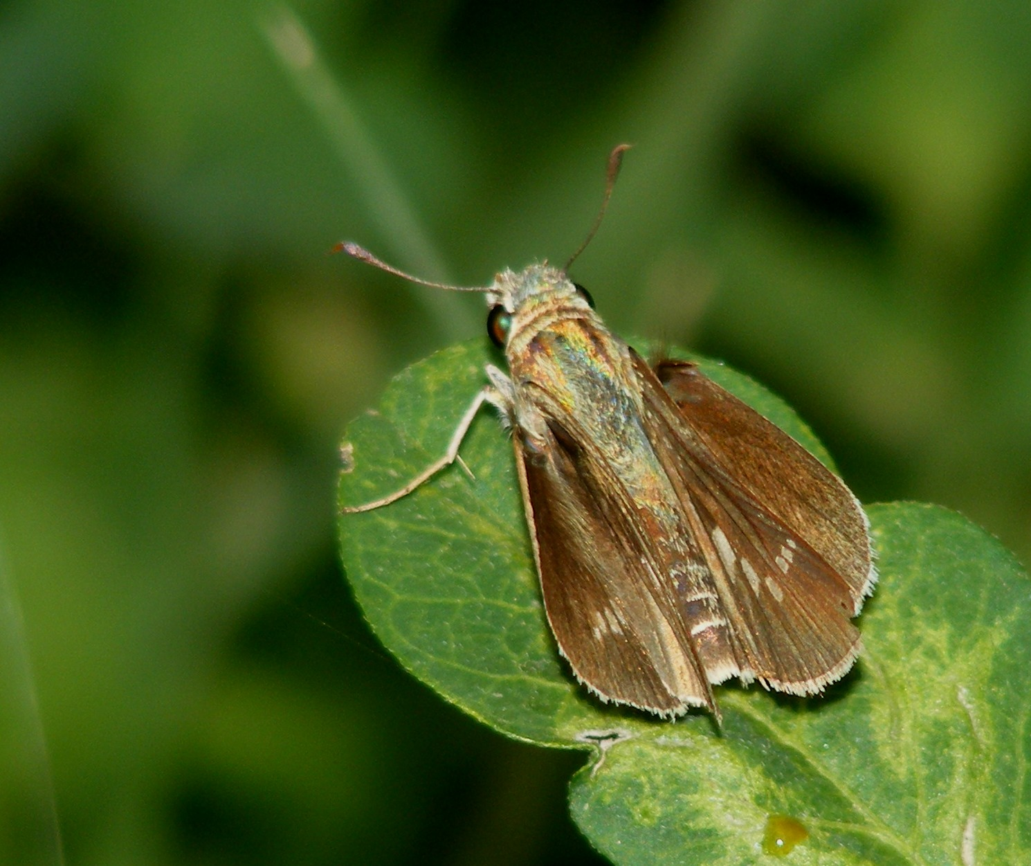 African Straight Swift_Parnara Bada